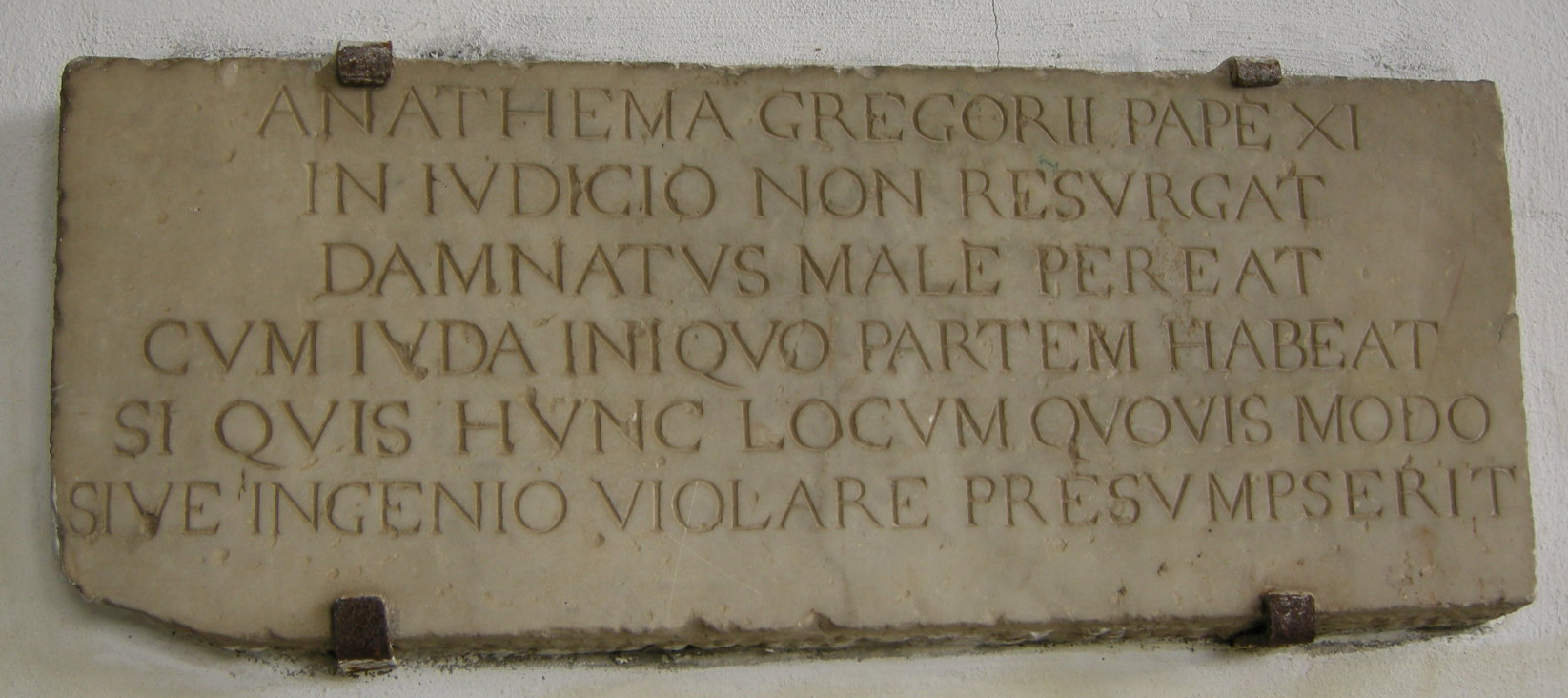 Anathema to Pope Gregory the court again sentenced to die when they should have their part of the disadvantages of this place or in any way violate the presumed ability